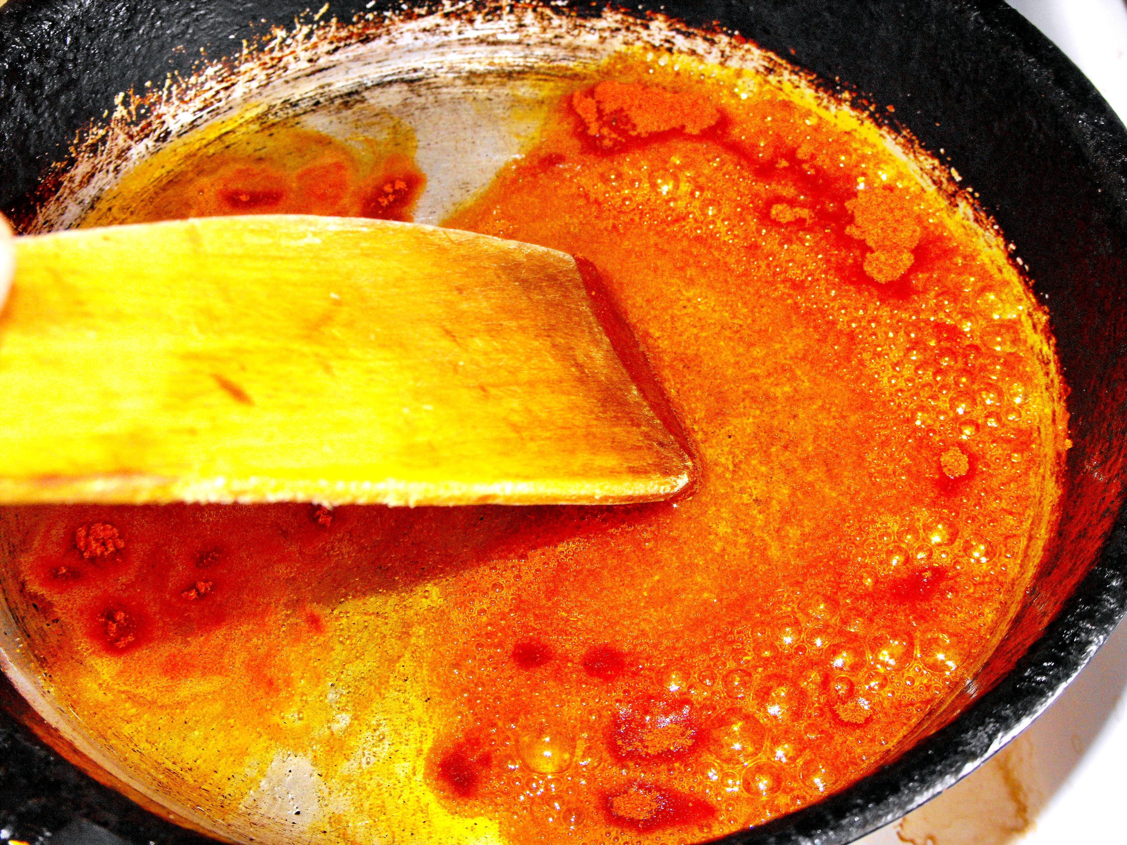 Hot Oil with Paprika